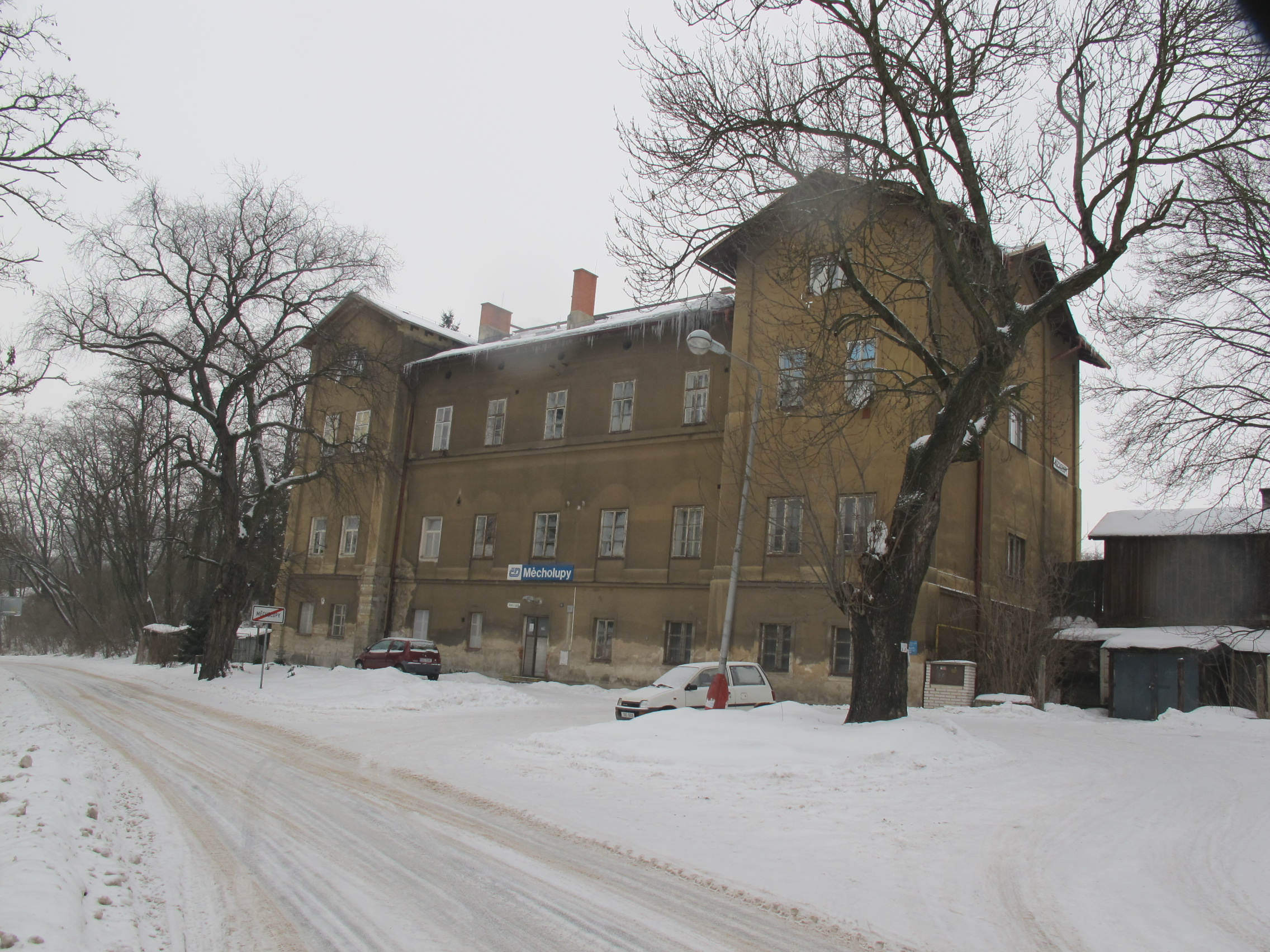 Train station in Měcholupy